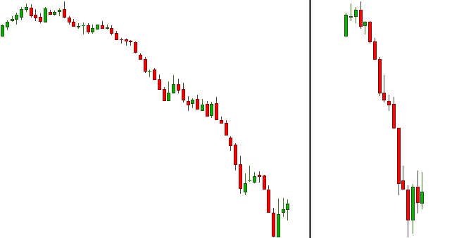 Candlesticks charts, two timeframes showing the same sequence (left in daily, right in weekly)